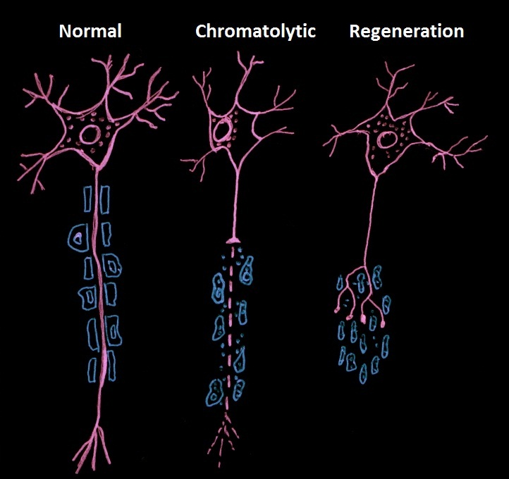 Drawing compares a normal neuron to a chromatolytic neuron and regenerating neuron